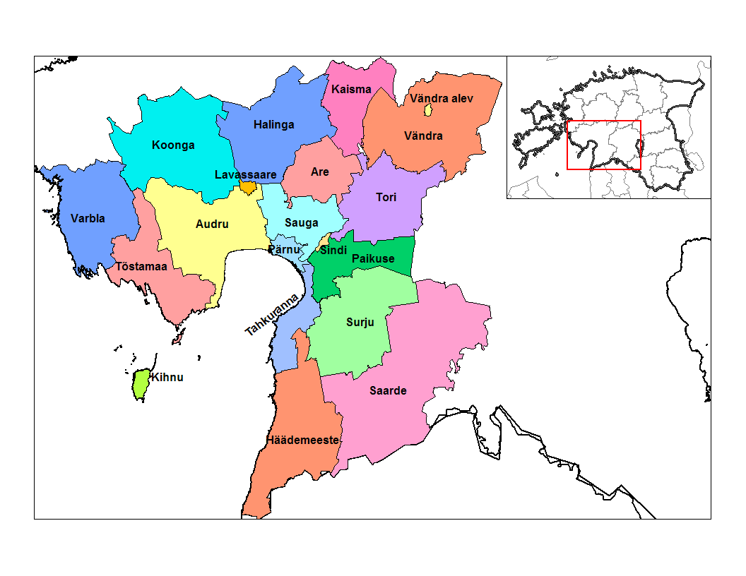 Map of the municipalities of Parnu county in Estonia. Created by Rarelibra 17:34, 22 December 2006 (UTC) for public domain use, using MapInfo Professional v8.5 and various mapping resources.